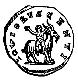 738 woodcuts illustrating the work A Dictionary of Roman Coins, Republican and Imperial (1889). To identify a coin please look at the filename to identify a page number, and check the Dictionary on numiswiki